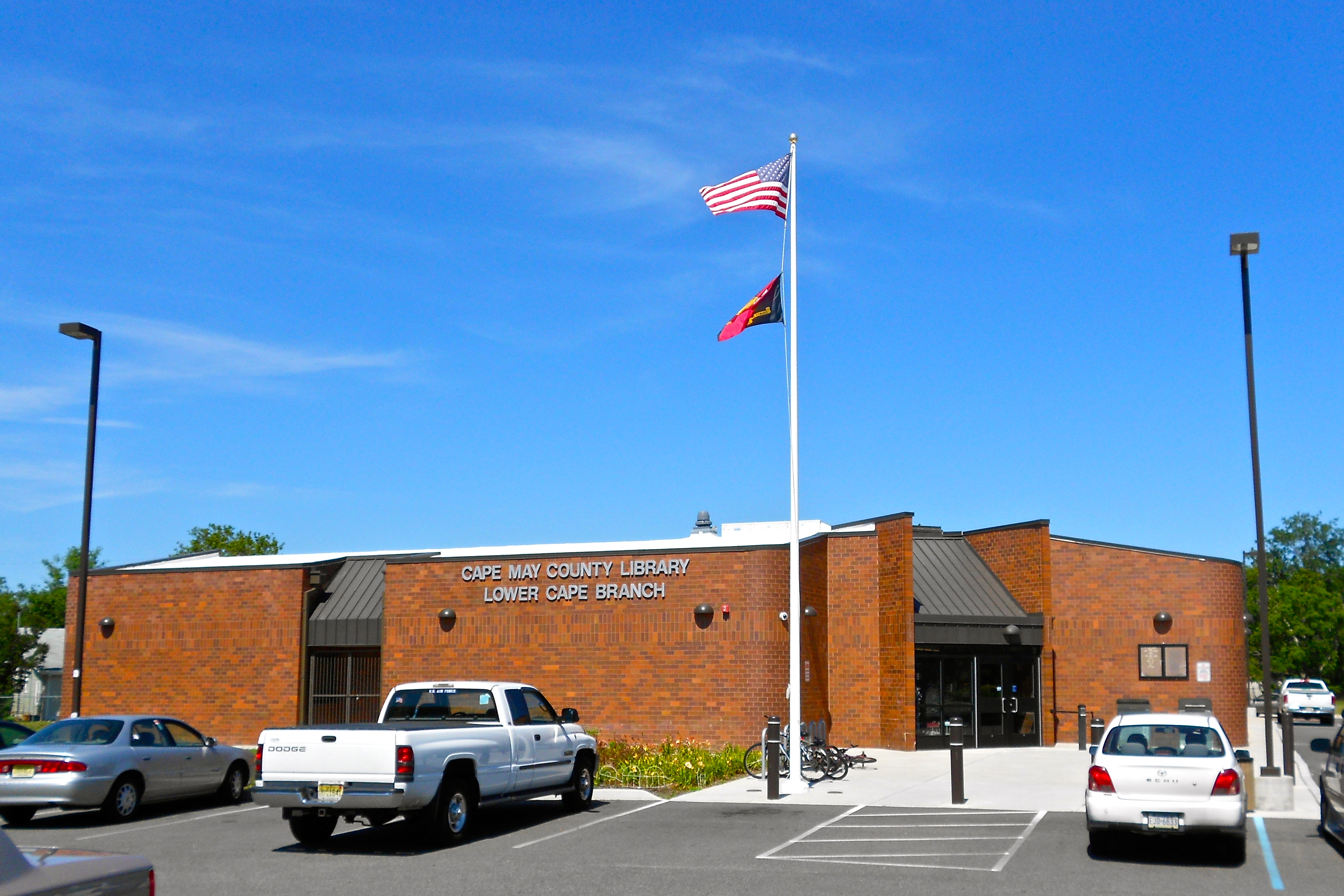 Cape May County Library, Lower Township Branch, right next to the Township of Lower Municipal Building. On Bayshore Road, in the area called the Villas.